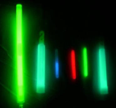 Some Glowsticks